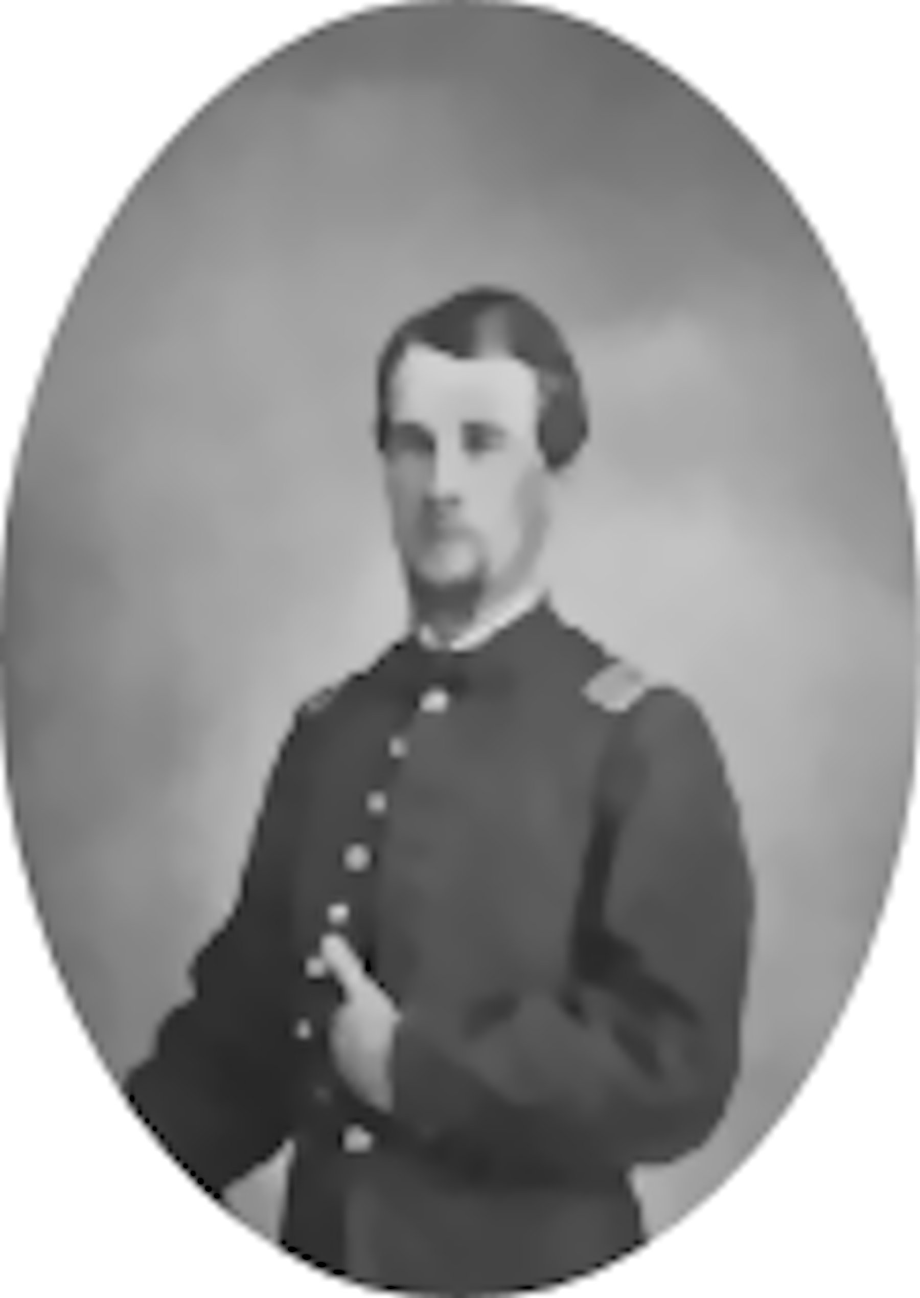 Medal of Honor winner George Henry Palmer